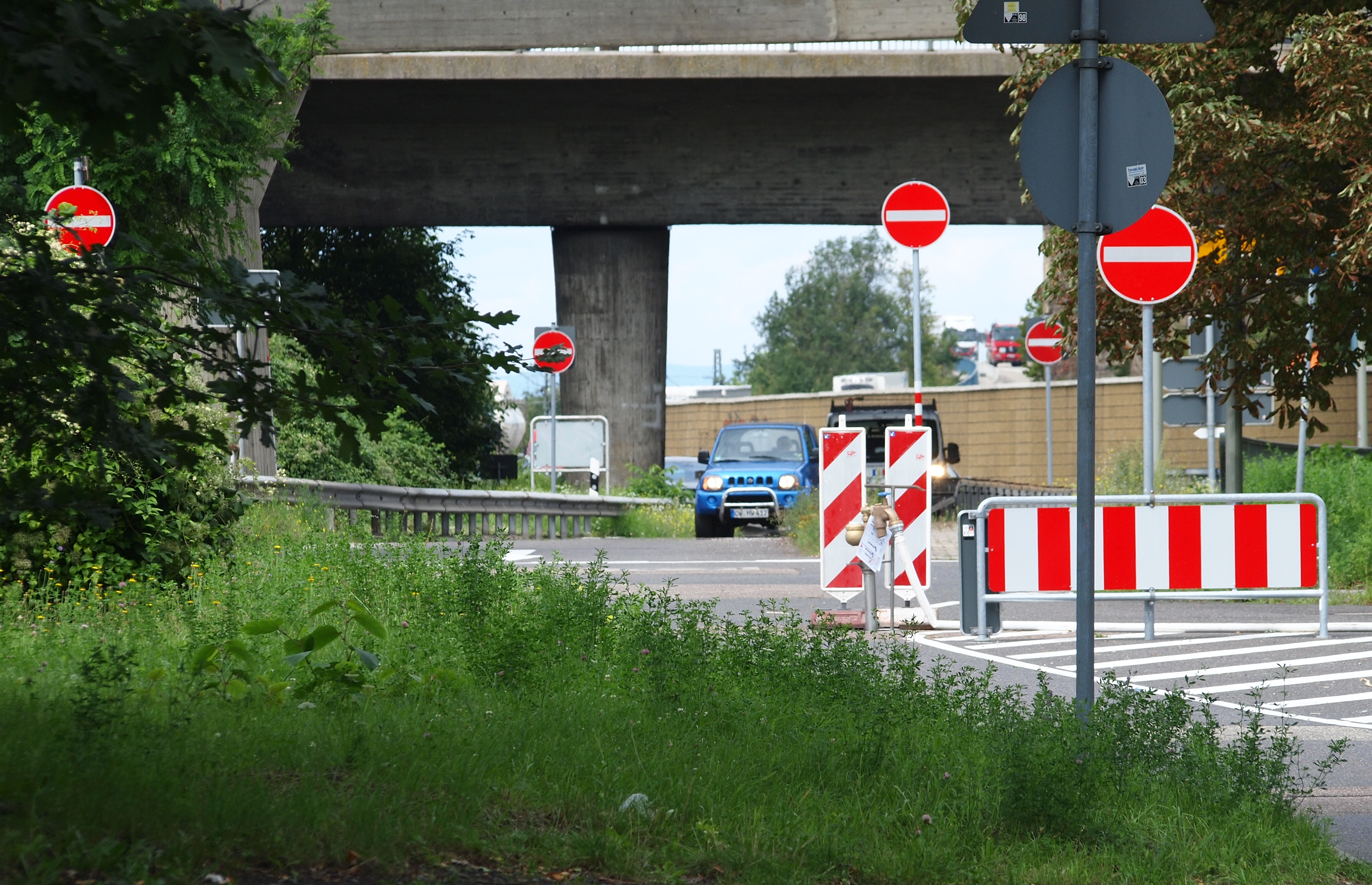 After a wrong-way-driving accident, multiple signs were installed.